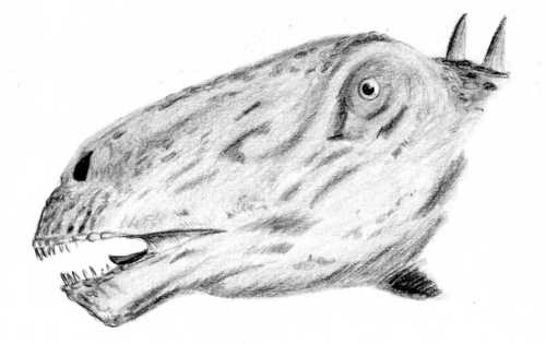 Diplodocus head based on skull specimen USNM 2673, which is now Galeamopus pabsti. Author:User:ArthurWeasley